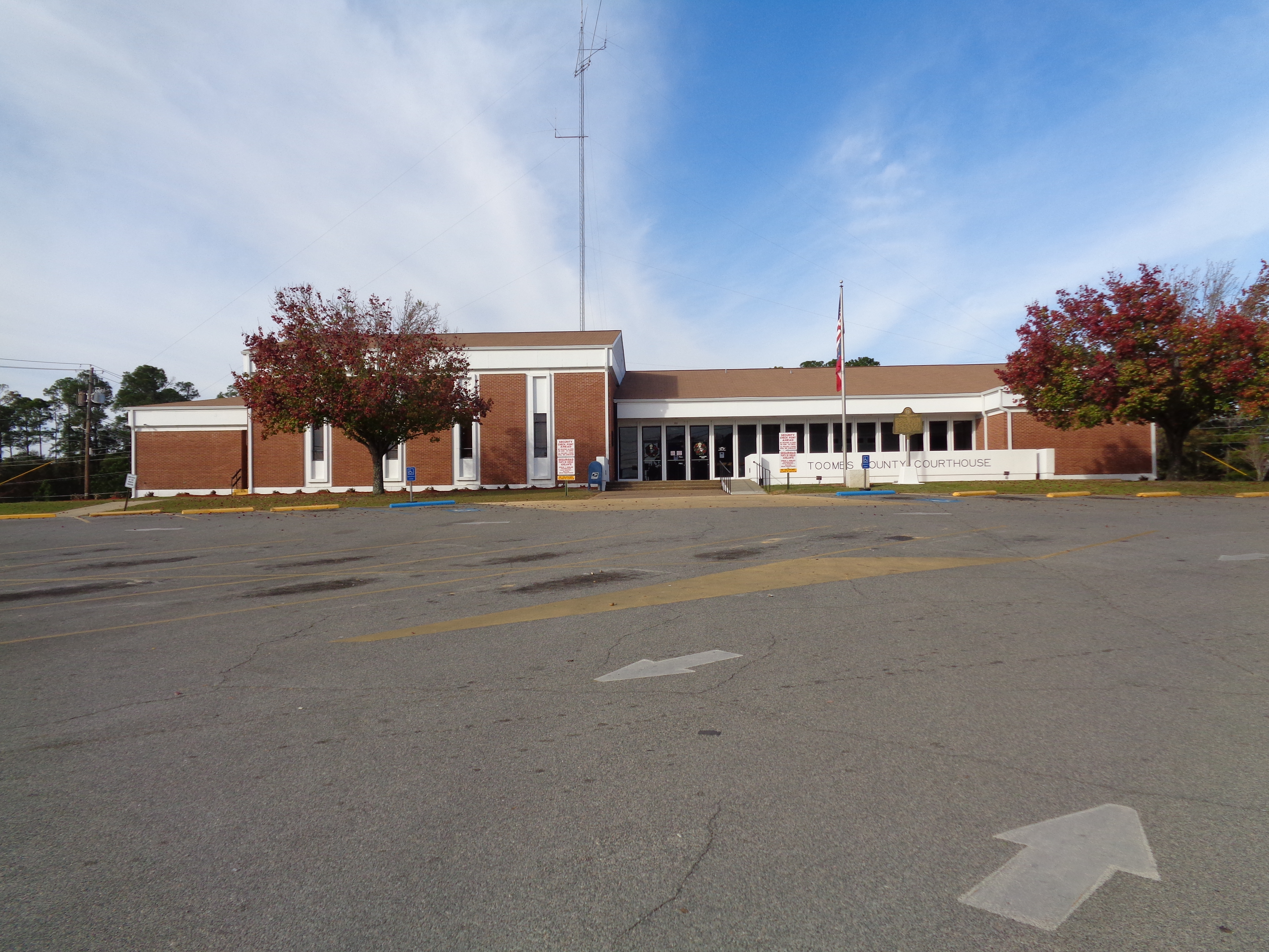 Toombs County Courthouse, Lyons, Tombs County, Georgia